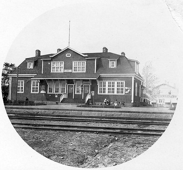 Former Nummela railway station, in Vihti, Finland